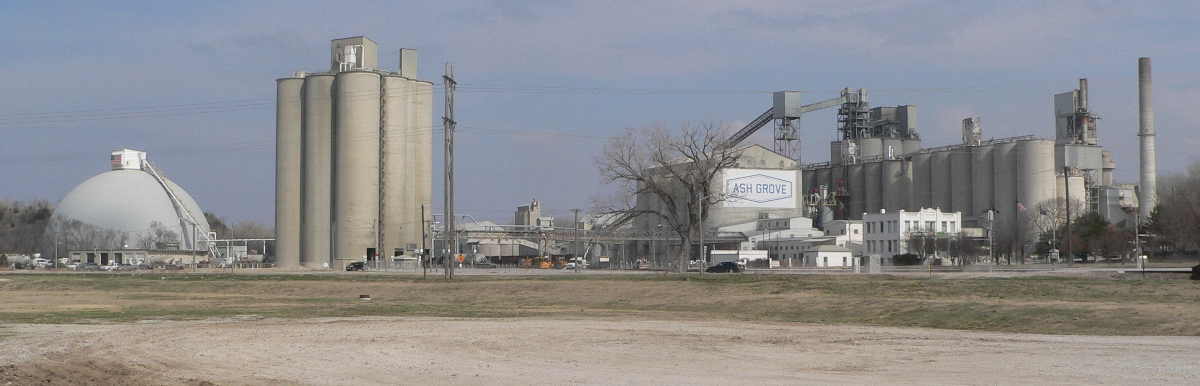 Ash Grove cement plant in Louisville, Nebraska; seen from the west.